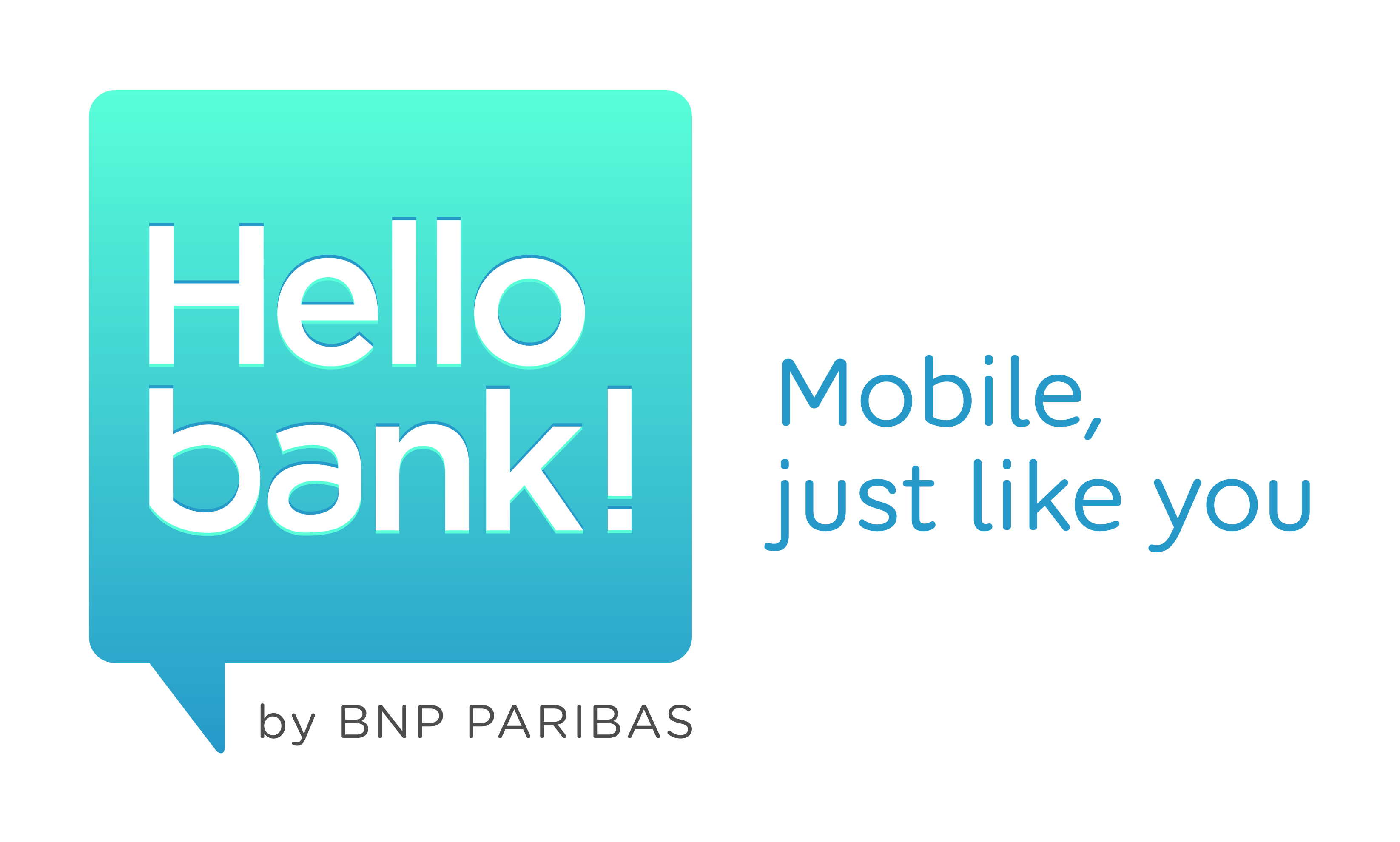 Logo of Hello bank!